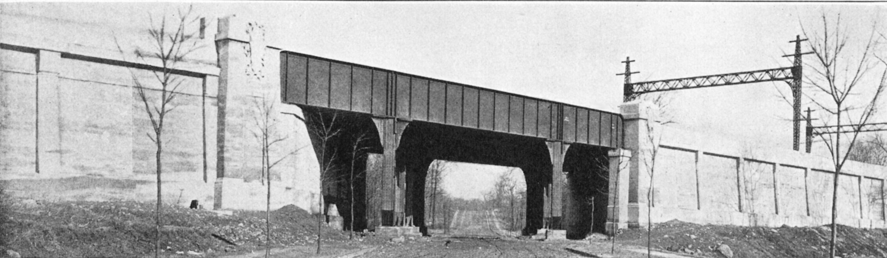 Bridge of the New York, Westchester and Boston Railway near Morris Park station.